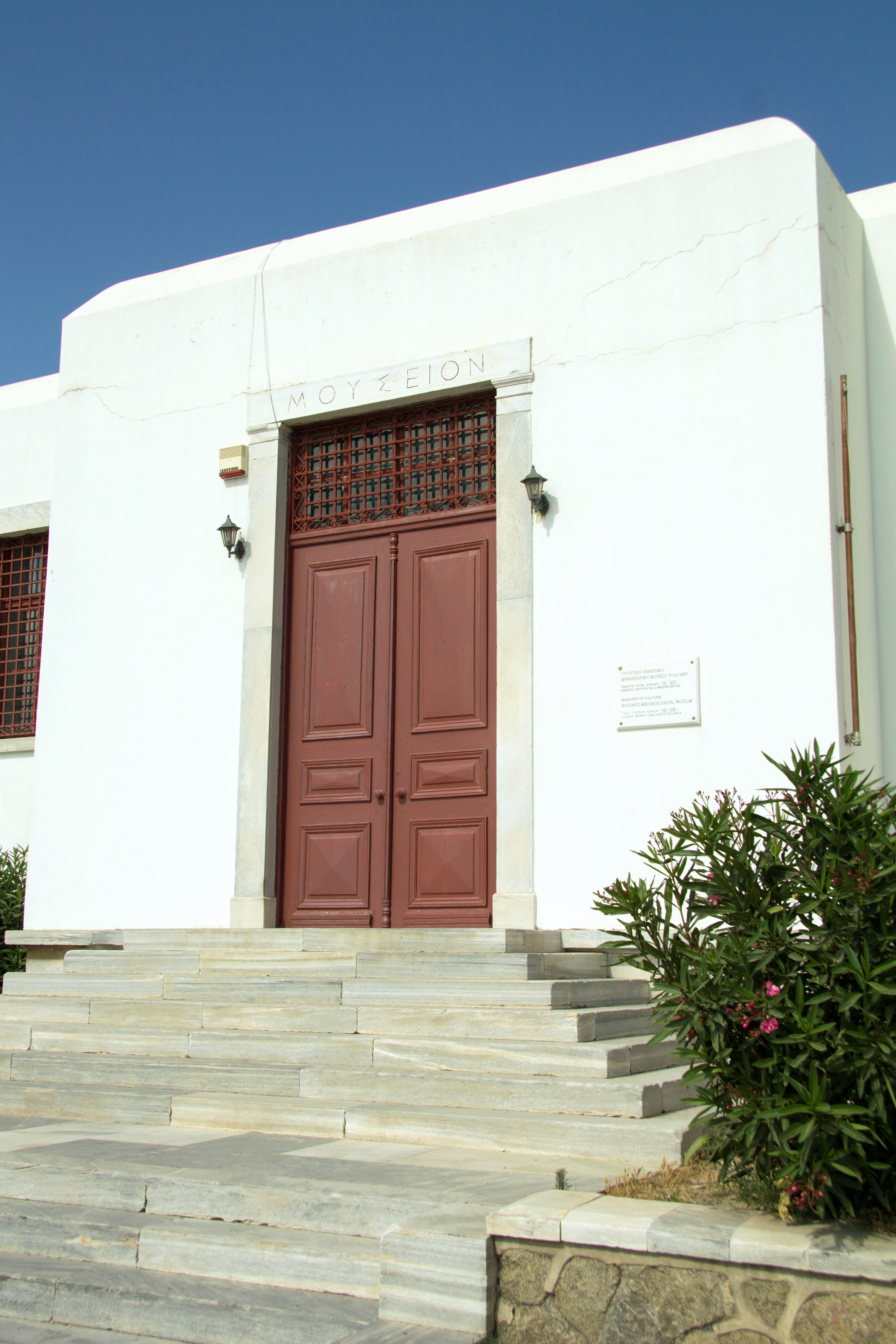 Entrance to the Archaeological Museum of Mikonos.